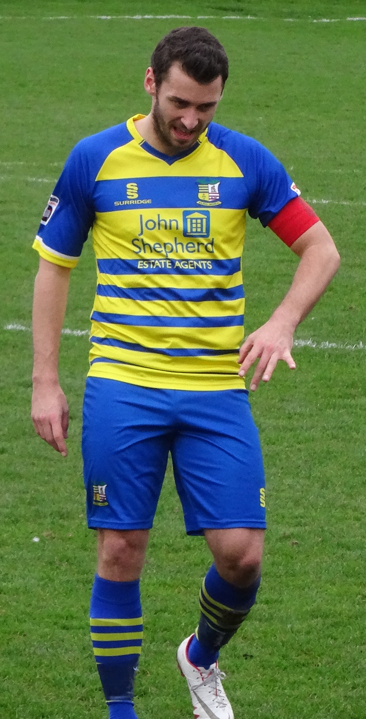 Ashley Sammons playing for Solihull Moors against North Ferriby United at Grange Lane, North Ferriby on 18 March 2017